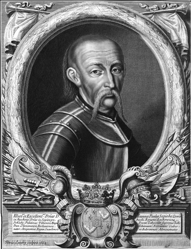 Jan Paweł Sapieha